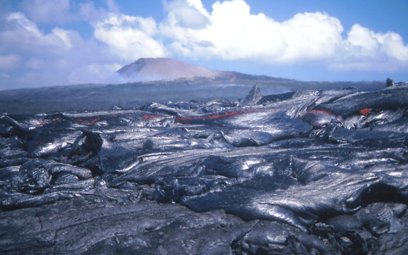 The leading edge of this pahoehoe flow is about 150-200 m from where lava is breaking out from the lava tube. Pu`u `O`o (background) is about 2.5 km away. This is only one of many flows that formed when lava began leaking from the tube immediately after the end of a 12-day pause in the eruption.